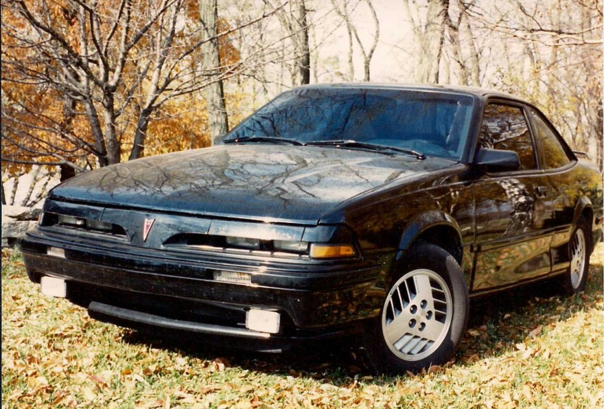 Picture of my 1990 Pontiac Sunbird GT taken by me in 1990